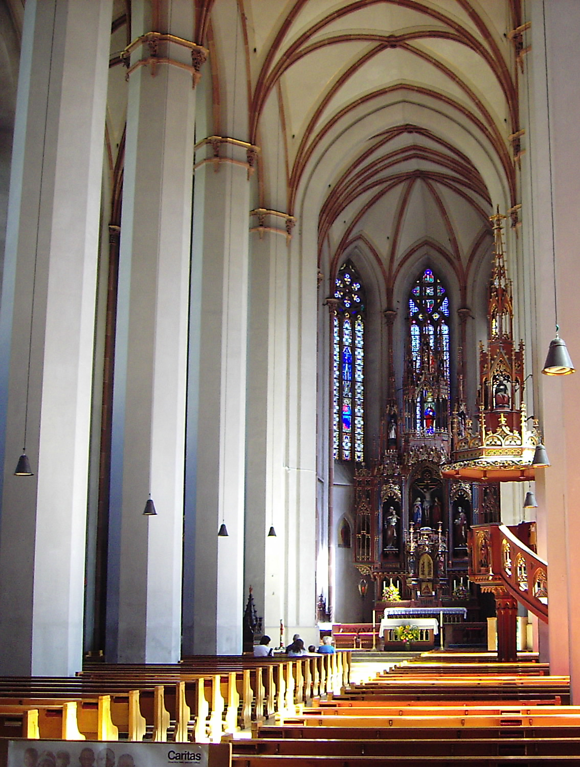 Interior View Of The Cathedral Of St. Johann im Pongau, Salzburger Land - Austria